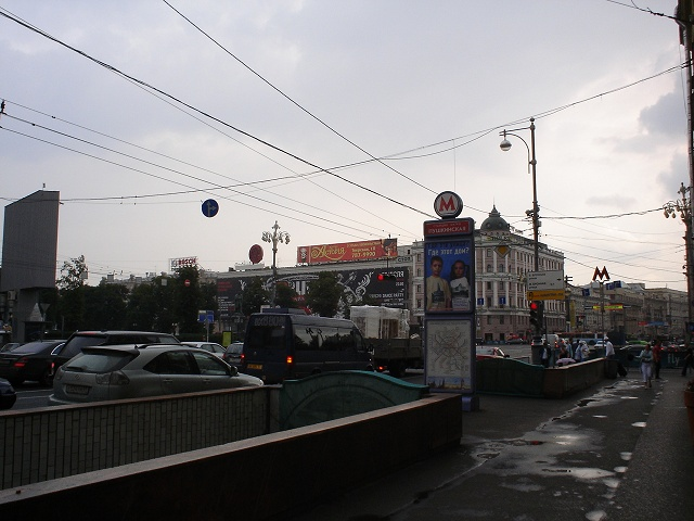 Pushkinskaya Metro Station in Moscow